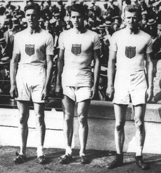 Frederick Kelly (center) of the USA, James Wendell (left) of the USA and Martin Hawkins (right) of the USA during the 1912 Olympic Games in Stockholm, Sweden. Kelly won the gold, Wendell won the silver and Hawkins won the bronzemedal in the 110 Metres Hurdles event.